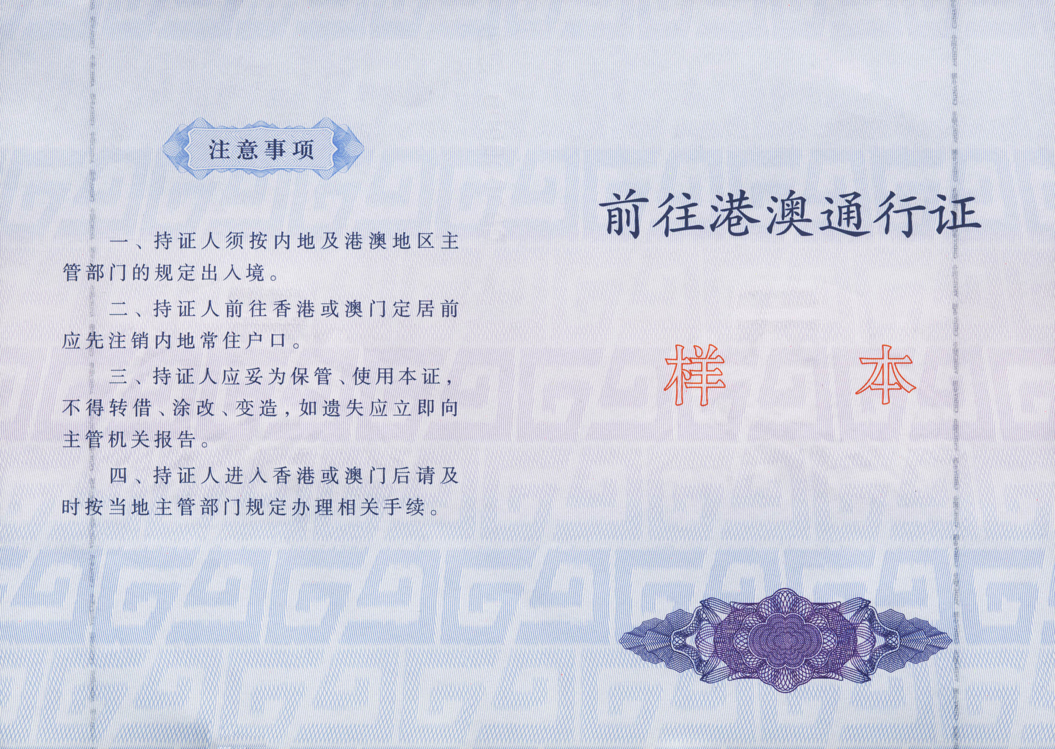 Sample of Permit for Proceeding to Hong Kong and Macao